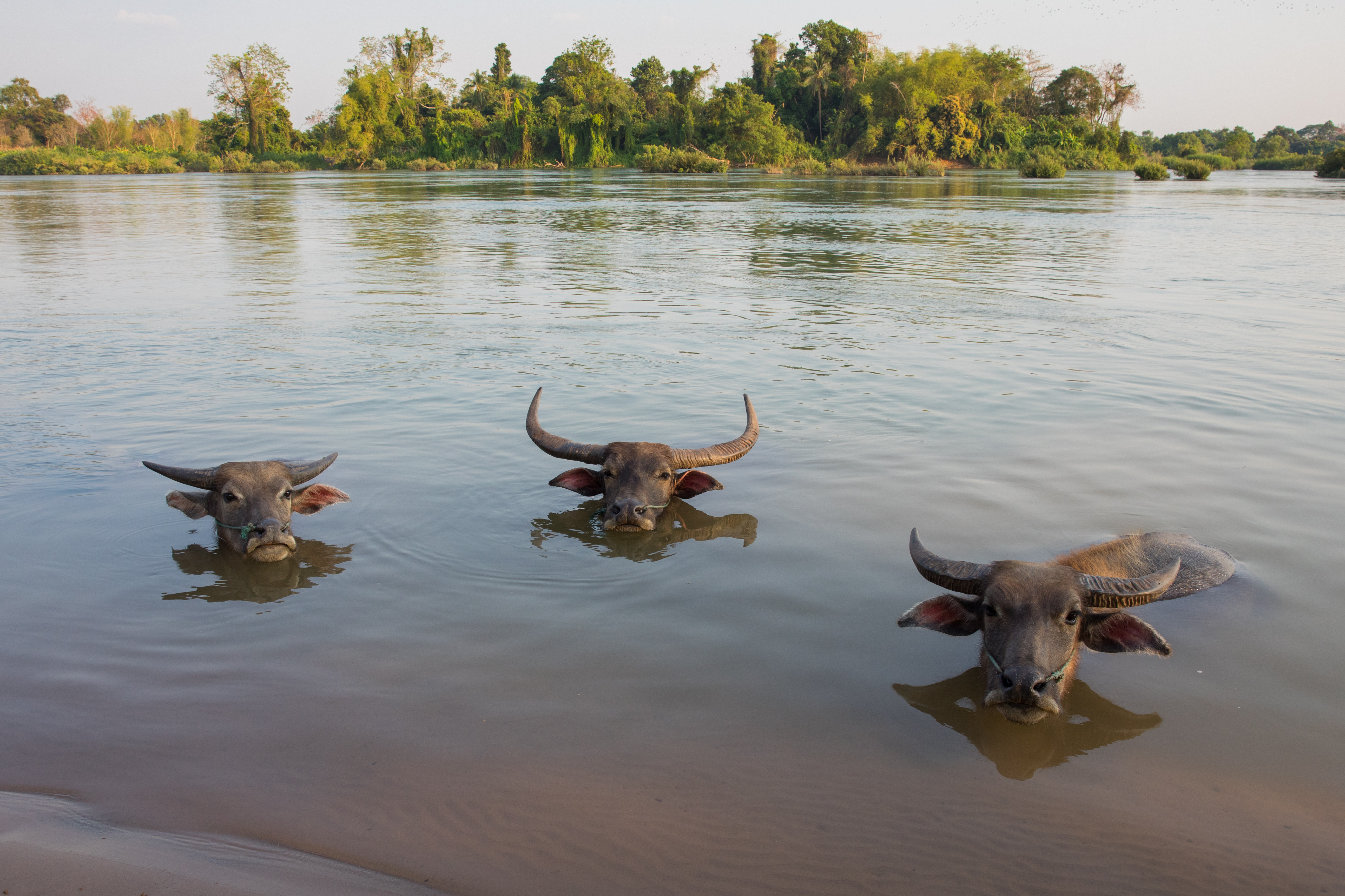 Three Bubalus bubalis (water buffaloes) bathing in the Mekong in Don An (Si Phan Don, Laos) with their heads above water. These buffaloes are often cooling themselves in the water (or in the mud), when the weather is hot. These working animals have nose ropes to facilitate their handling during the labour season, though here in March they are not attached and are free to move where they want all around the island, sometimes even crossing the river.